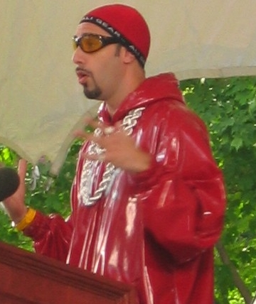 Image of Ali G, as performed by Sacha Baron Cohen, delivering the Class Day speech to the Harvard class of 2004, in front of Memorial Church in Harvard Yard. June 9, 2004.